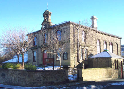 Town Hall, Main Street, Cottingley, West Yorkshire. Built as a combined town hall and non-denominational chapel.